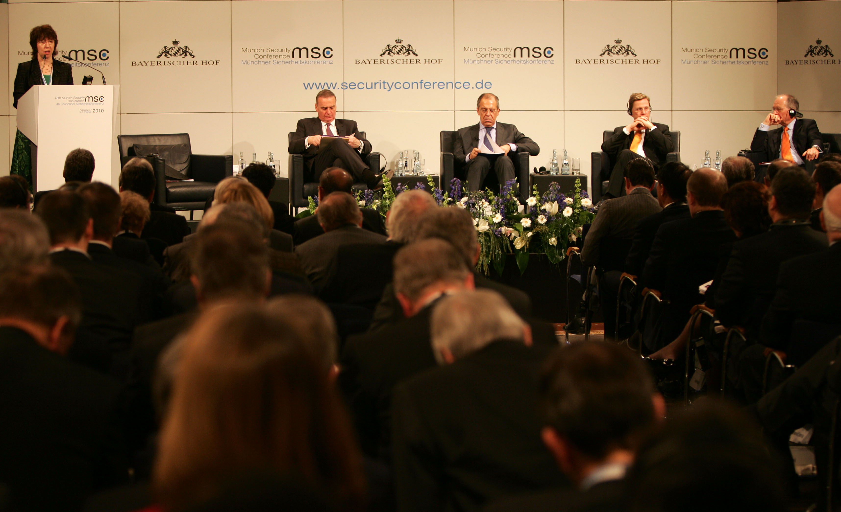 46th Munich Security Conference 2010: Panel discussion.